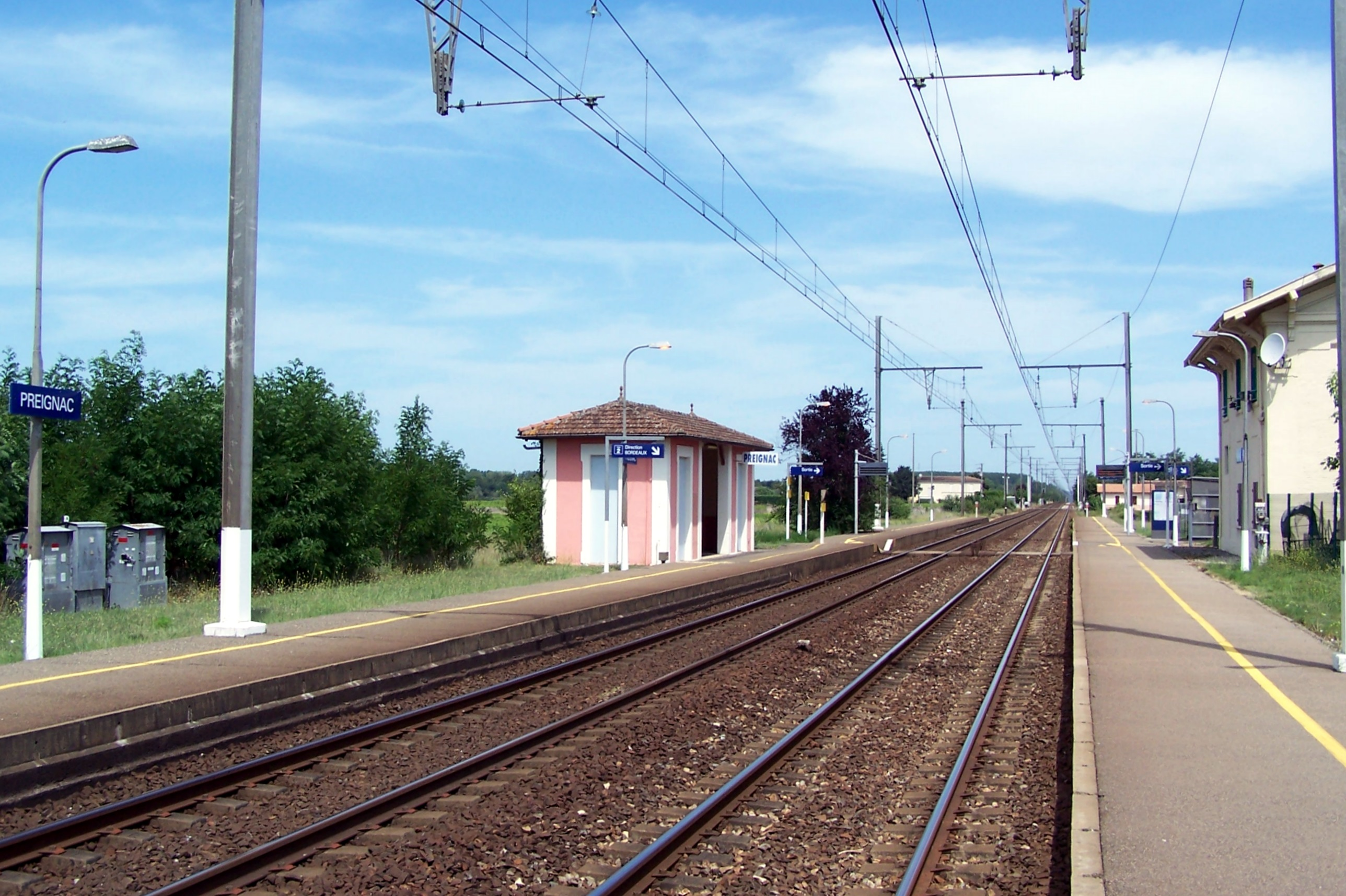 Train station of Preignac (Gironde, France)